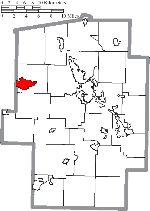 Map of the municipal and township boundaries of Tuscarawas County, Ohio, United States, as of the 2000 census, with the location of the village of Sugarcreek highlighted. Township borders are shown only in unincorporated areas in order to differentiate incorporated and unincorporated areas more clearly.